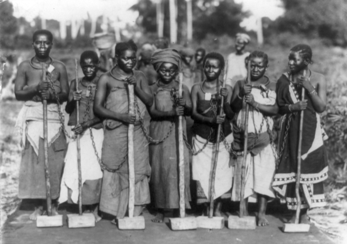 Female convicts chained together by neck rings, working on a road in Dar es Salaam